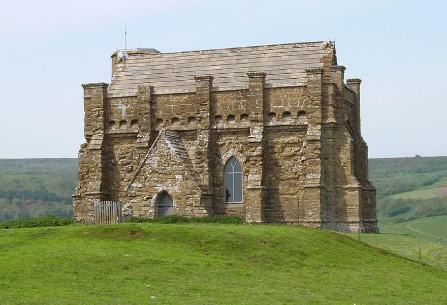 St Catherine's Chapel, Abbotsbury, Dorset. Photograph taken by David Edgar on 14th May 2006.